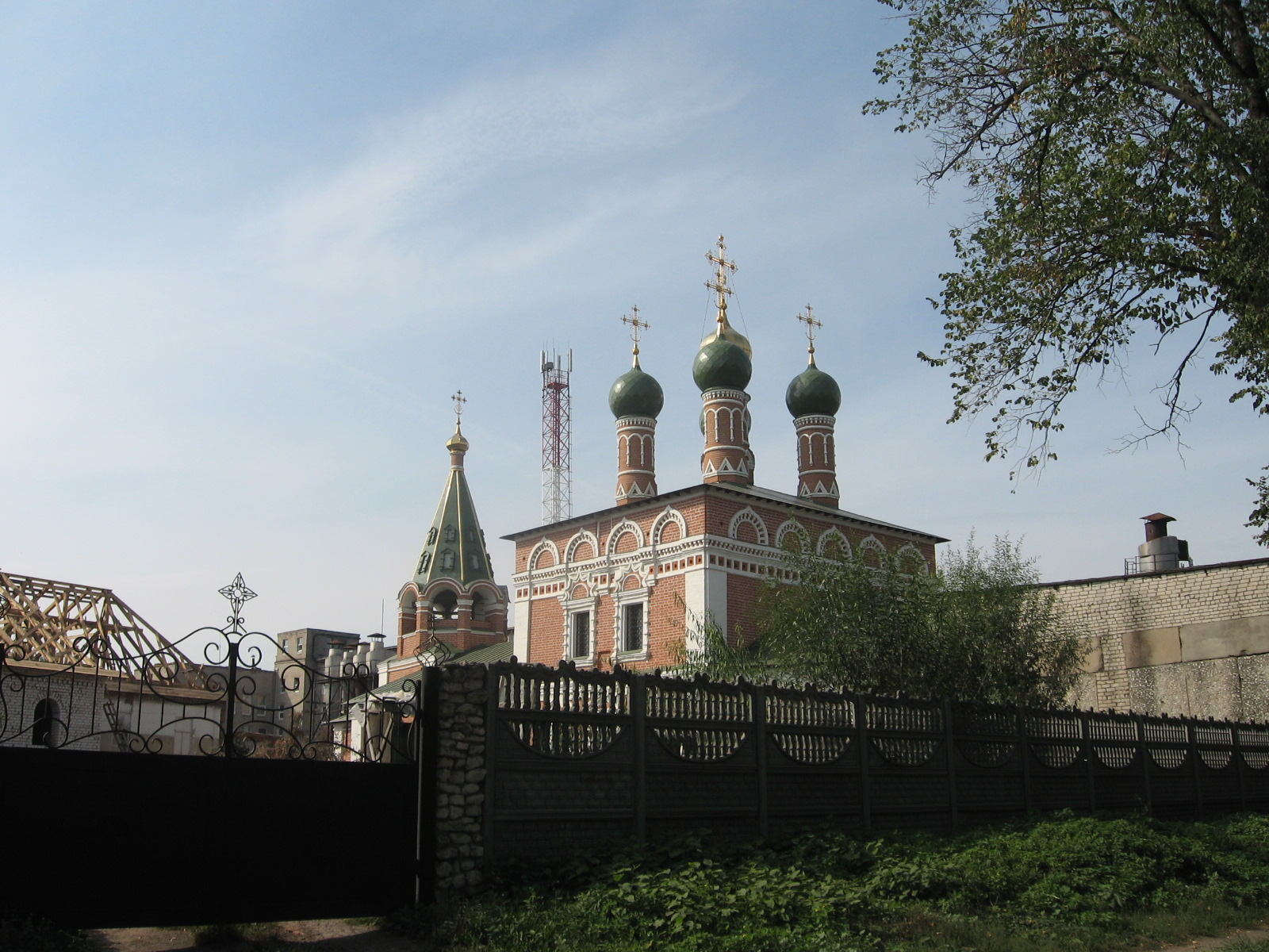 Church on Entrance in Jerusalem (Ryazan)